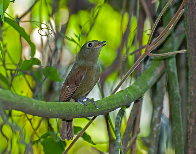 Greenish Schiffornis Schiffornis virescens Estadual da Serr da Cantareira - Núcleo Engordador - São Paulo-SP- Brasil